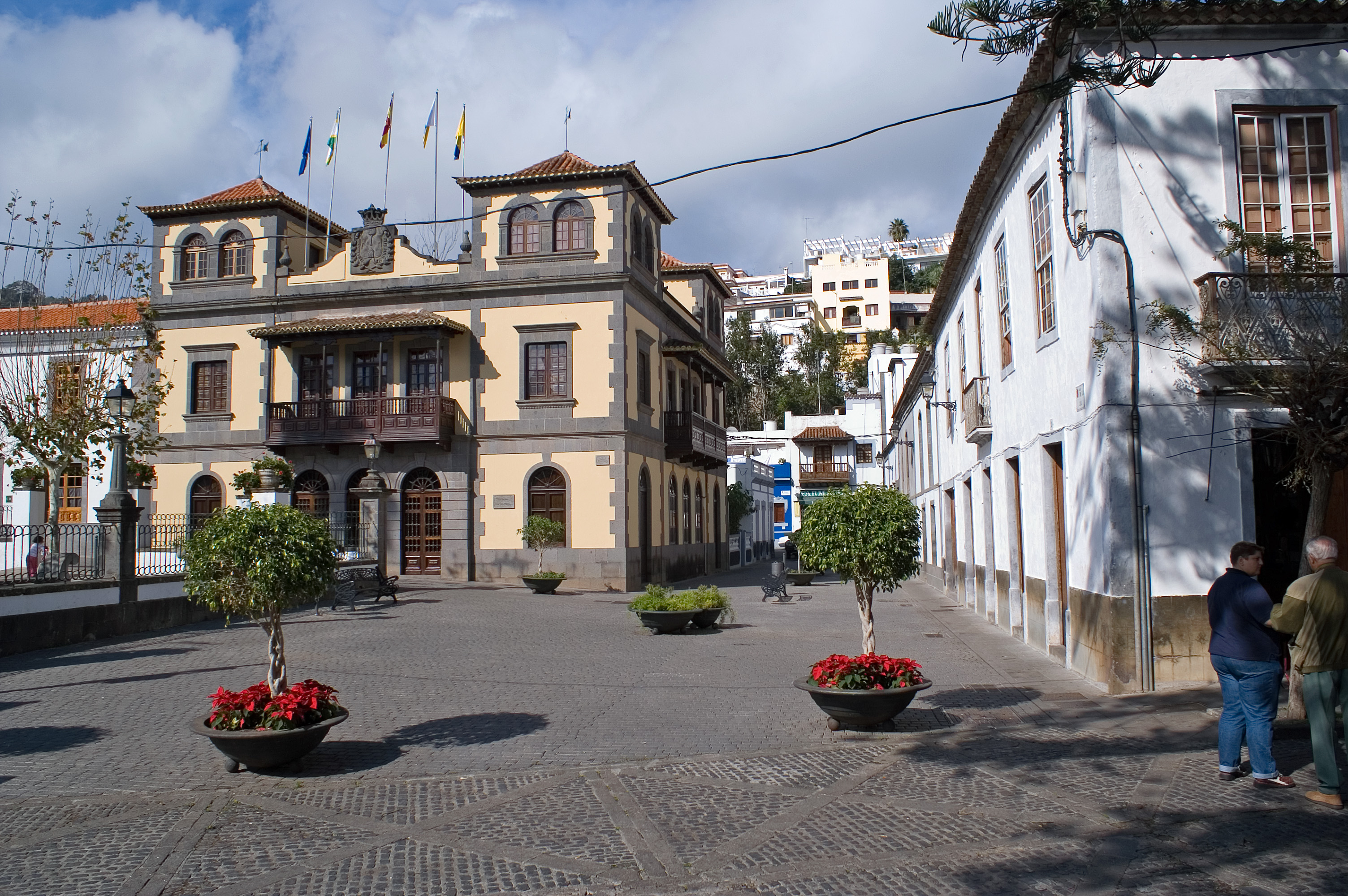 Town City Hall - Teror, Gran Canaria (Canary Islands, Spain).